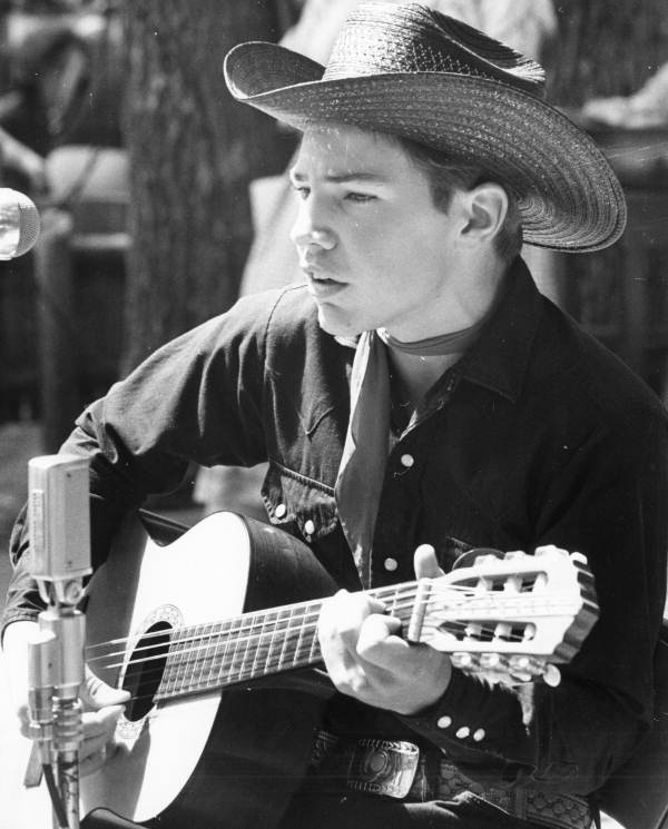 Local call number: fa3802 Title: [Danny Coflin of Odessa singing at the 1970 Florida Folk Festival : White Springs, Florida] Date: Photographed in May, 1970. Physical descrip: 1 photoprint : b&w ; 8 x 10 in. Series Title: ( General note:Coflin is a trick roper. Repository: 500 S. Bronough St., Tallahassee, FL 32399-0250 USA. Contact: 850-245-6700. Persistent URL